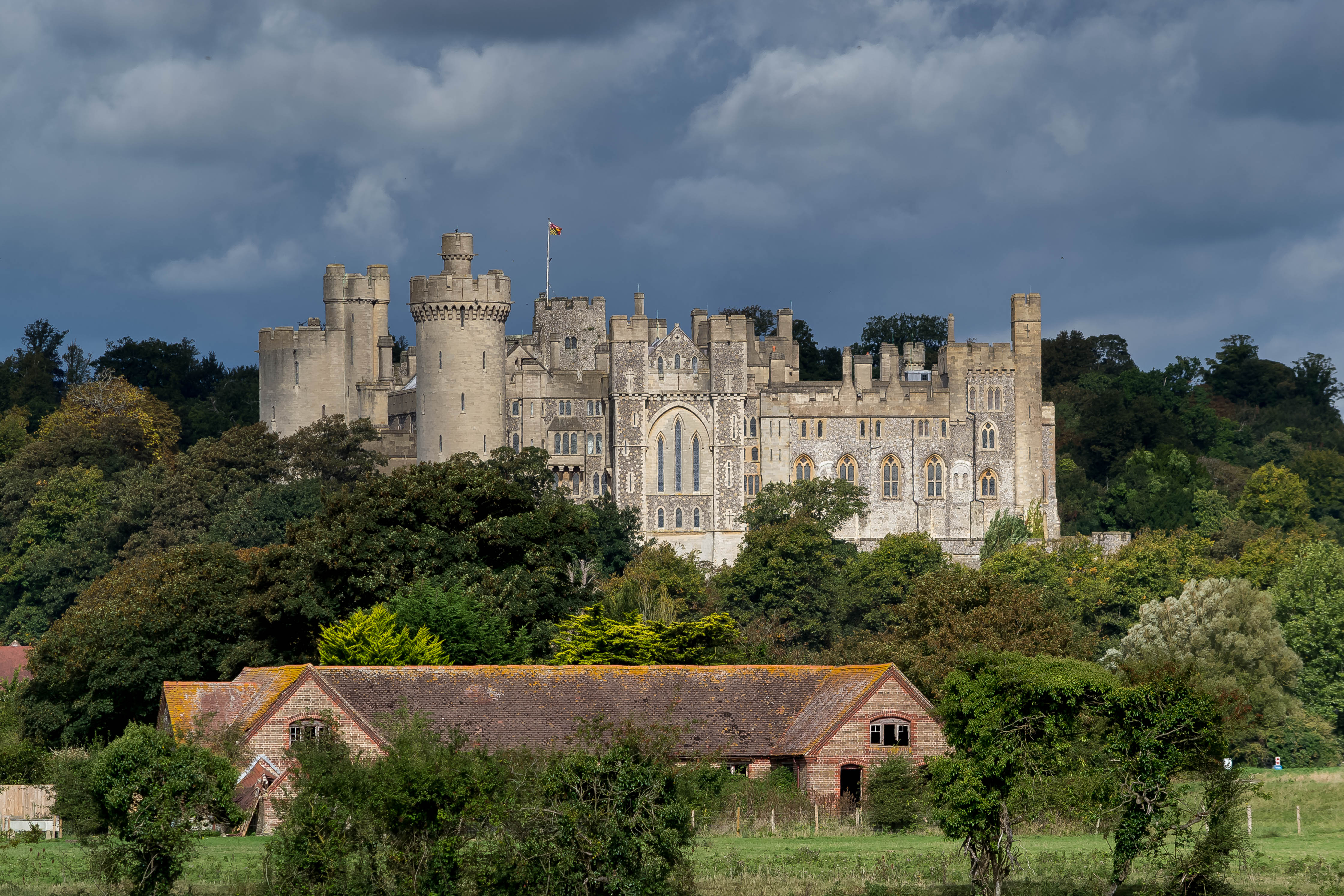 Arundel Castle Wikidata has entry Q716667 with data related to this item.